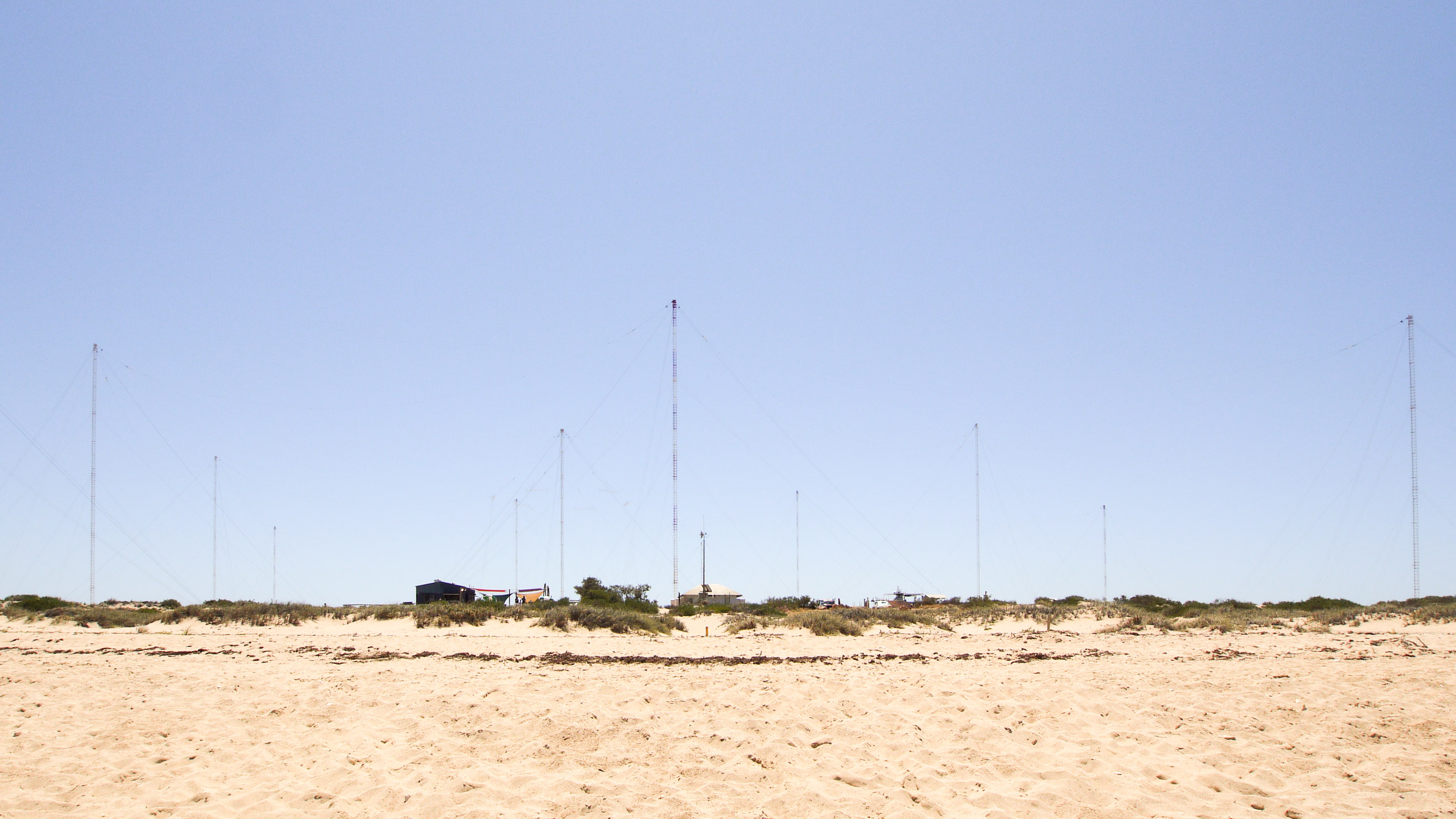 These very low frequency radio masts are used for naval communication.